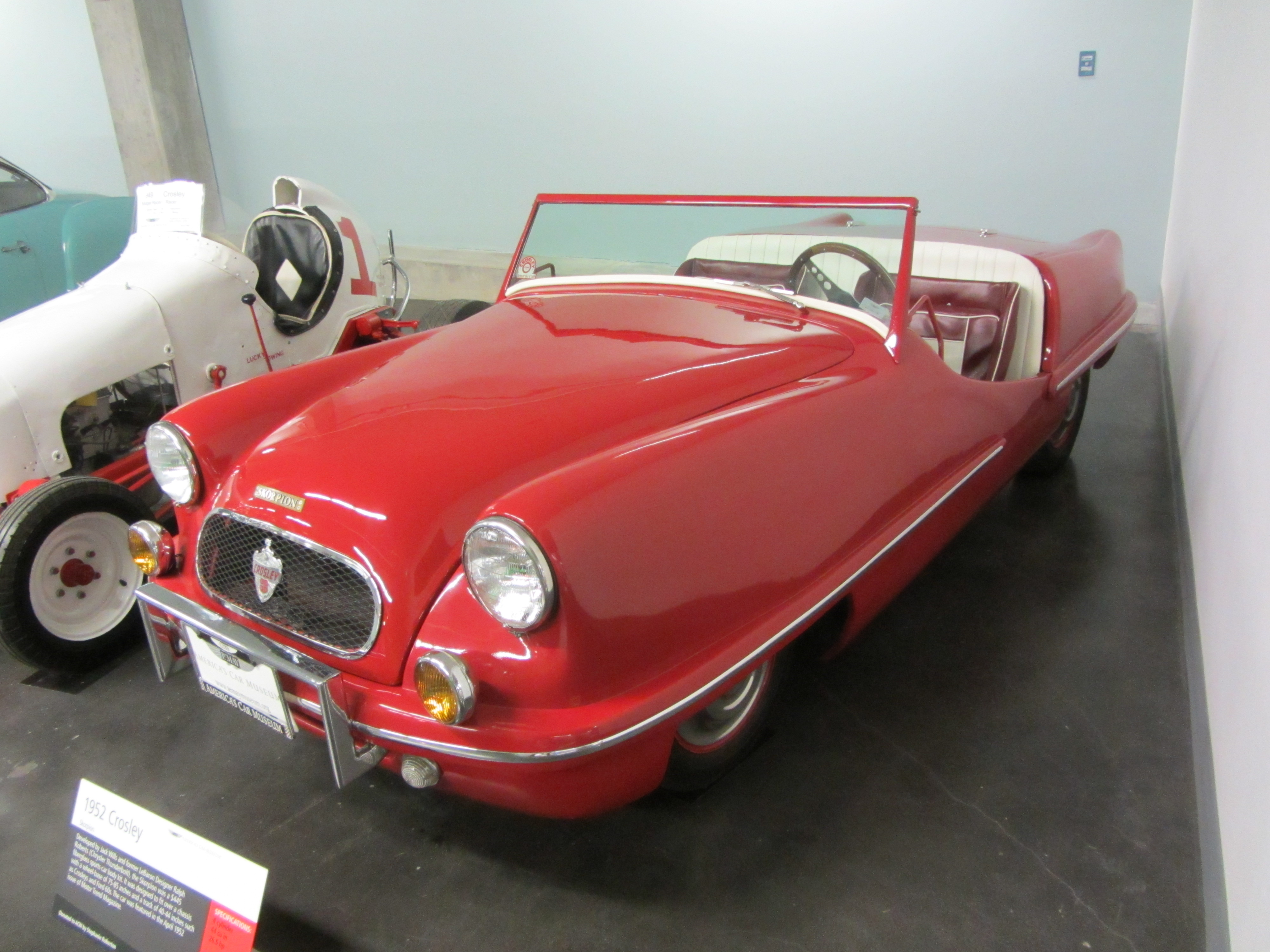 Fiberglass body made for a Crosley chassis during the fiberglass sports cars boom of the fifties. Seen at the LeMay, America's Car Museum in Tacoma